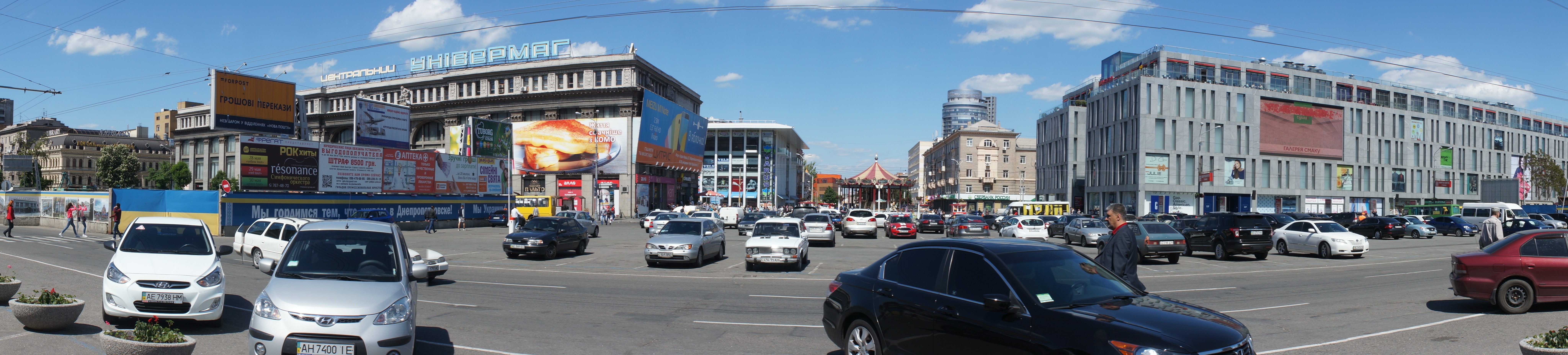 Maidan Heroes Square in Dnipropetrovsk